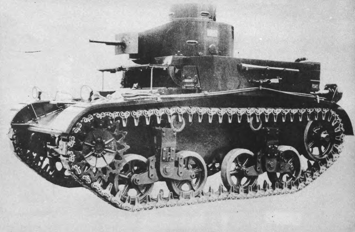 The Light Tank, M2A1, a U.S. Army light tank introduced in 1935. The turret is armed with two .machine guns (a .50 caliber and a .30 caliber) and has a round cupola on top.